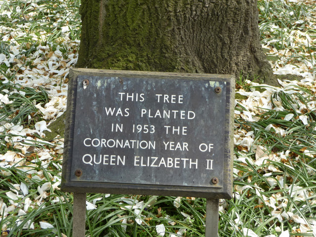 Plaque in Lincoln's Inn Fields, London WC1 Plaque beside tree which was planted in 1953 at the time of the coronation of Queen Elizabeth II.